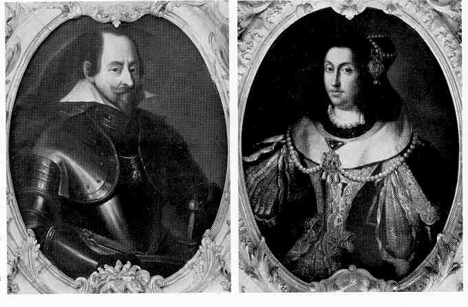 Maximilian I, Elector of Bavaria and Archduchess Maria Anna of Austria (1610–1665)